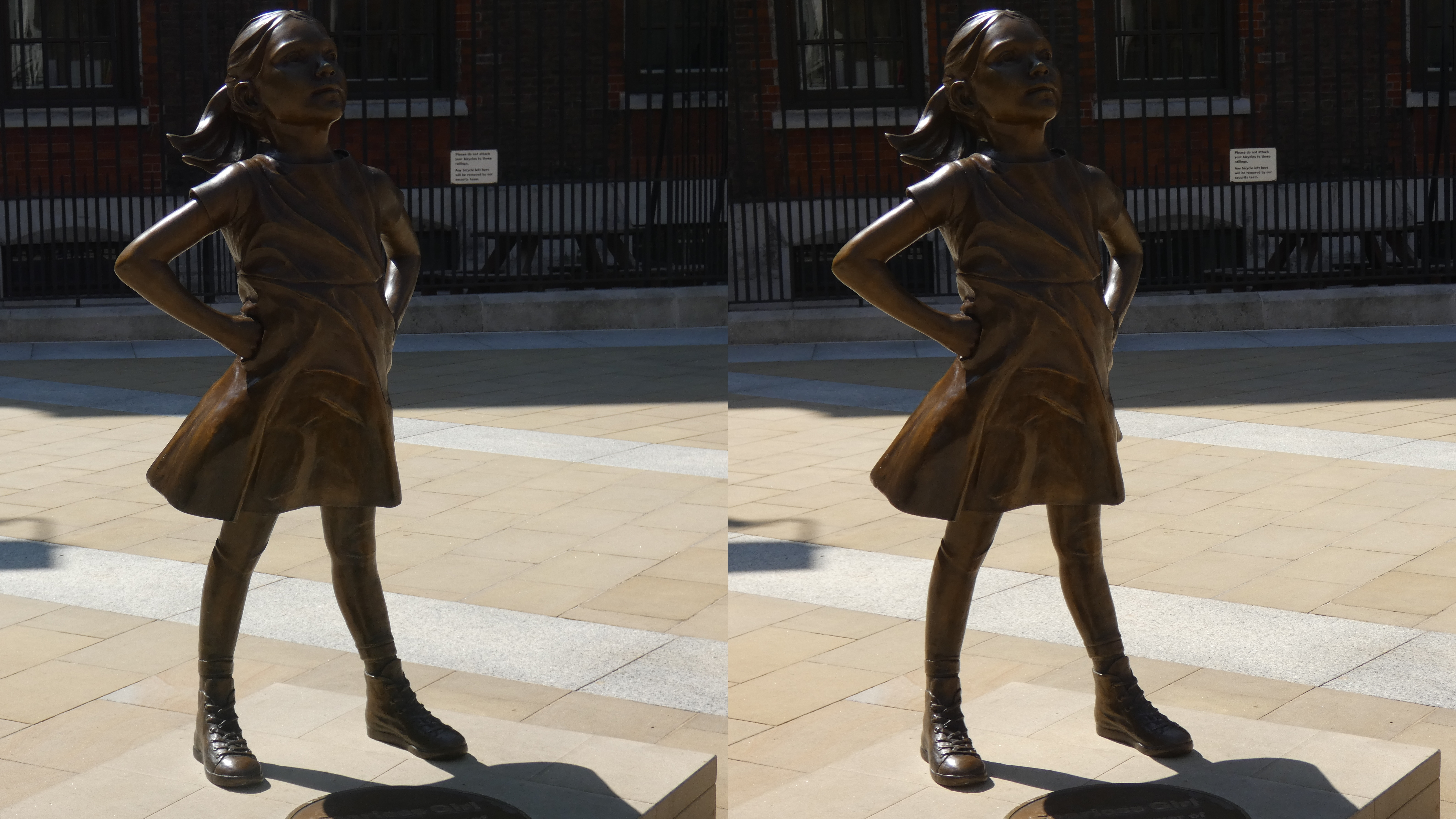 Statue "Fearless Girl" at the London Stock Exchange on Paternoster Square in 3D